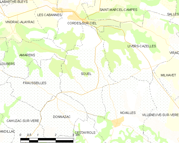 Map of French municipality Souel